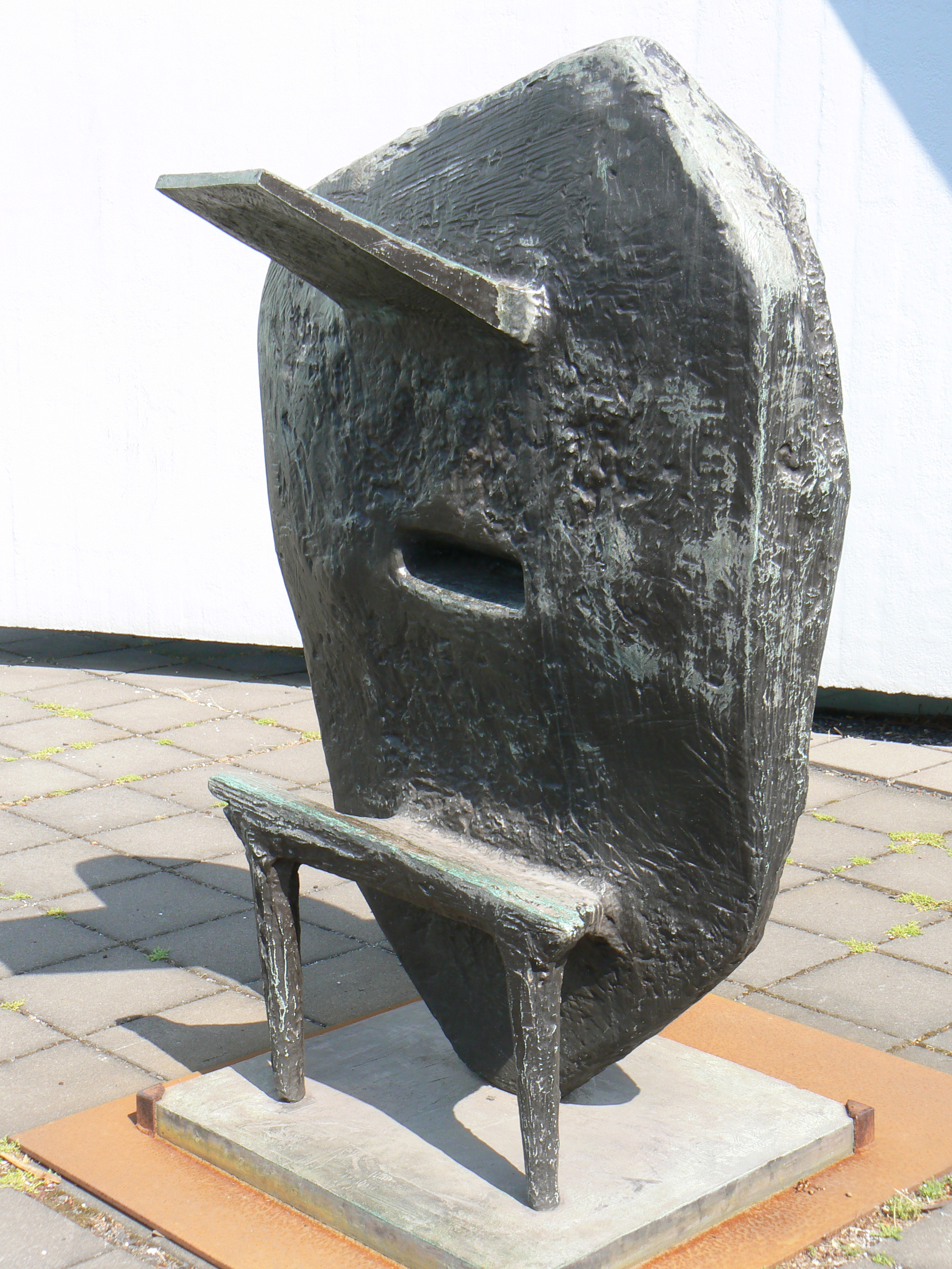 Sculpture Der Prophet (1961) by Kenneth Armitage in Duisburg/Germany